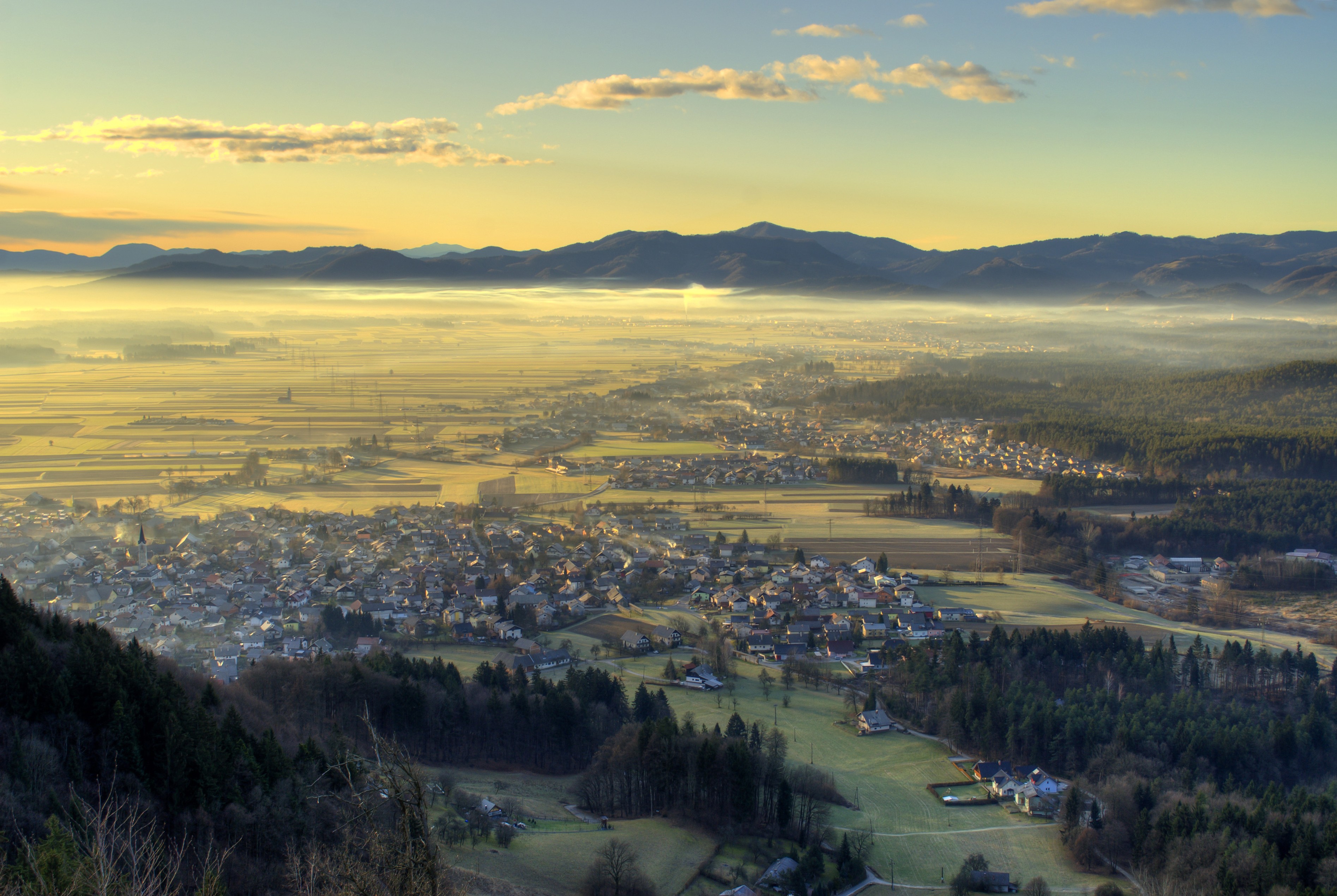 Šmarjetna gora, view towards Škofja Loka, Slovenia.